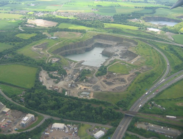 The flooded workings of Hillwood Quarry, Newbridge, lie under the flightpath to and from Edinburgh Airport